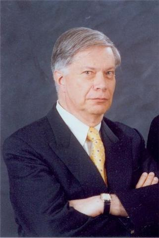 Portrait of the Bolivian writer HCF Mansilla